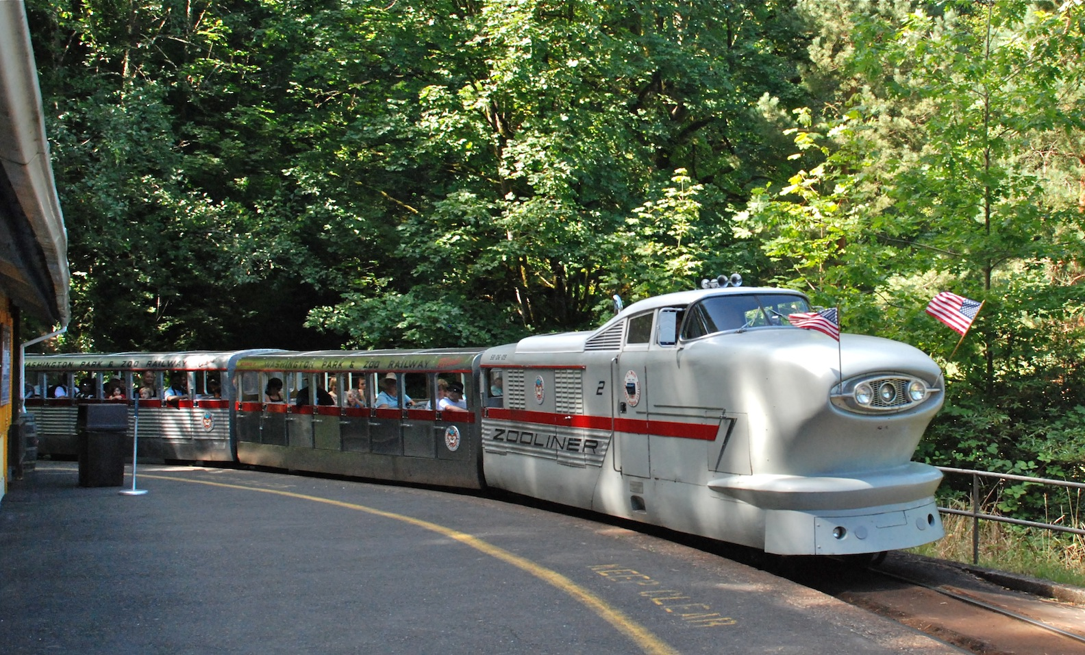 The Washington Park and Zoo Railway's Zooliner, built in 1958, is a 5/8-scale replica of General Motors' Aerotrain. The WP&Z Railway (called the Portland Zoo Railway until 1978) is located in Portland, Oregon, and serves the Oregon Zoo and Washington Park. The line's initial phase opened in 1959, and it was extended through the park in 1960 to the Washington Park station, located near the city's Rose Gardens and Japanese Garden. In this photo, the Zooliner is arriving at the Washington Park station.